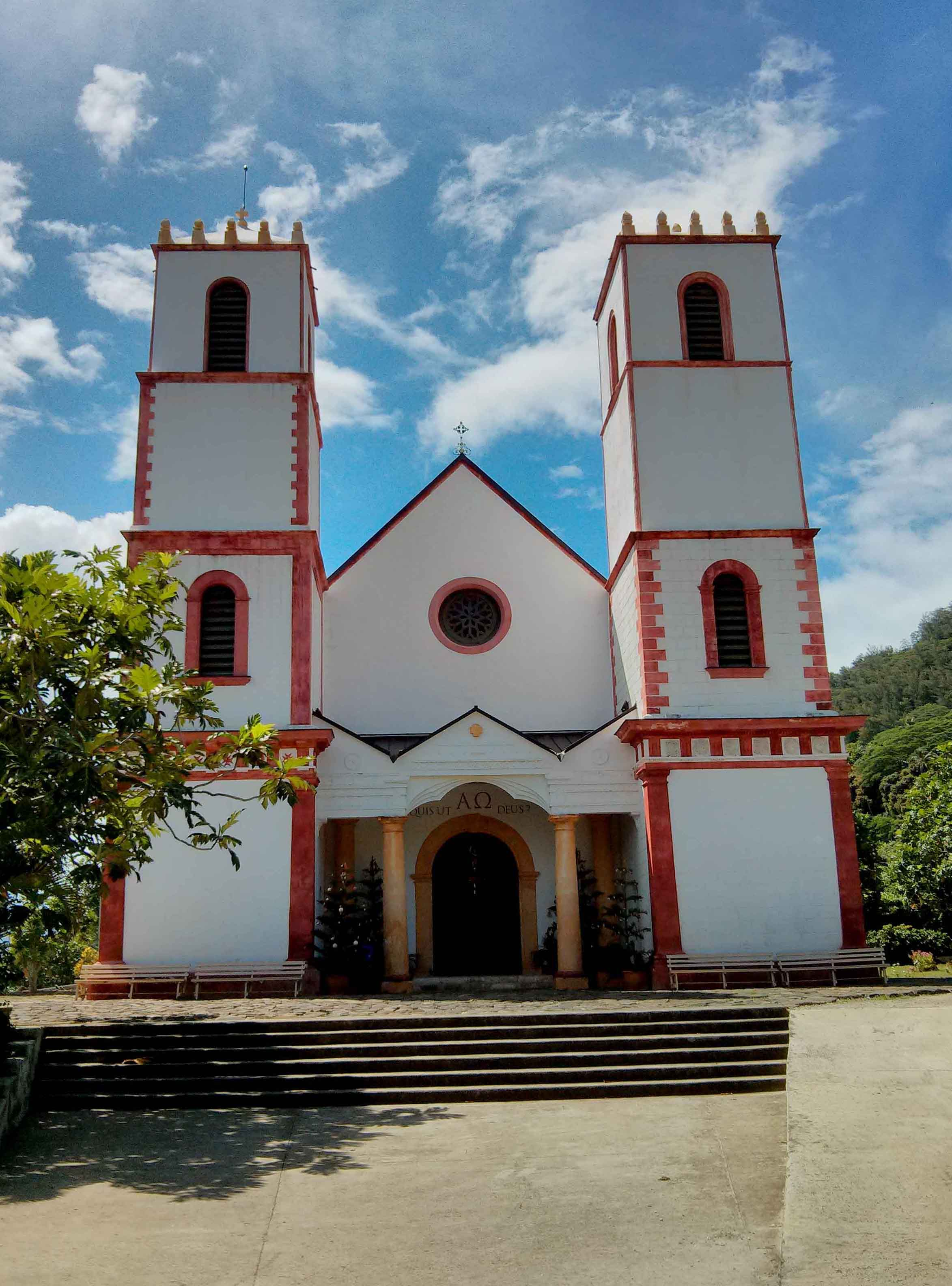 St Michael's Cathedral, Gambier Islands, French Polynesia on January 3 2014.